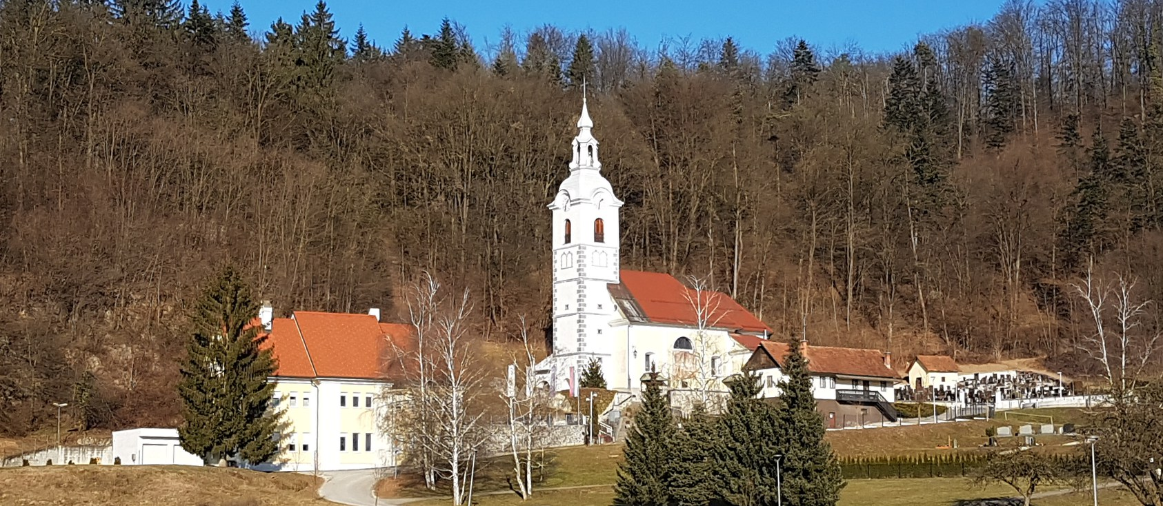 St. George's Parish Church in Ihan, Slovenia